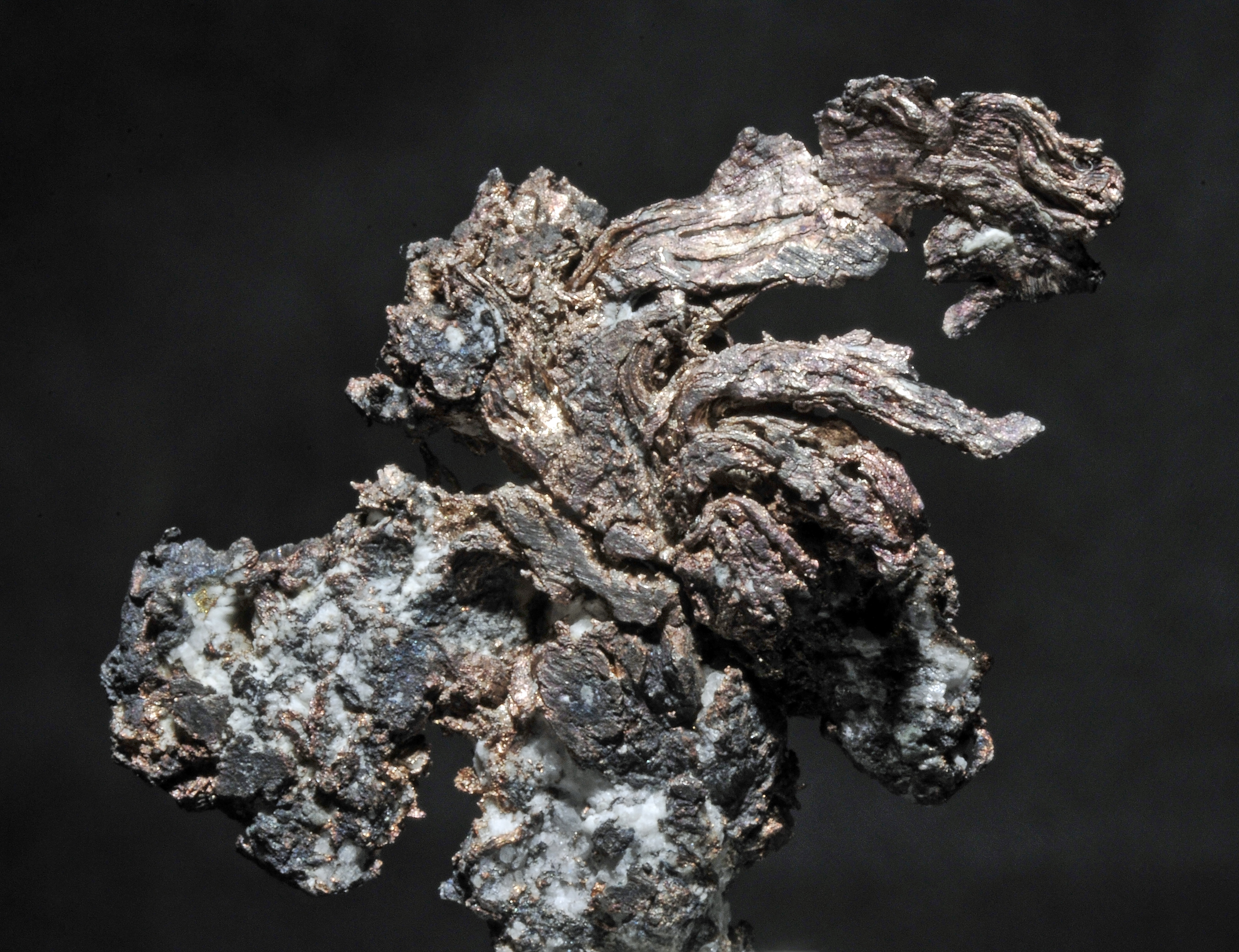 crystals of native silver, crystals of calcite : Batopilas, Andres del Rio District, Mun. de Batopilas, Chihuahua, Mexico